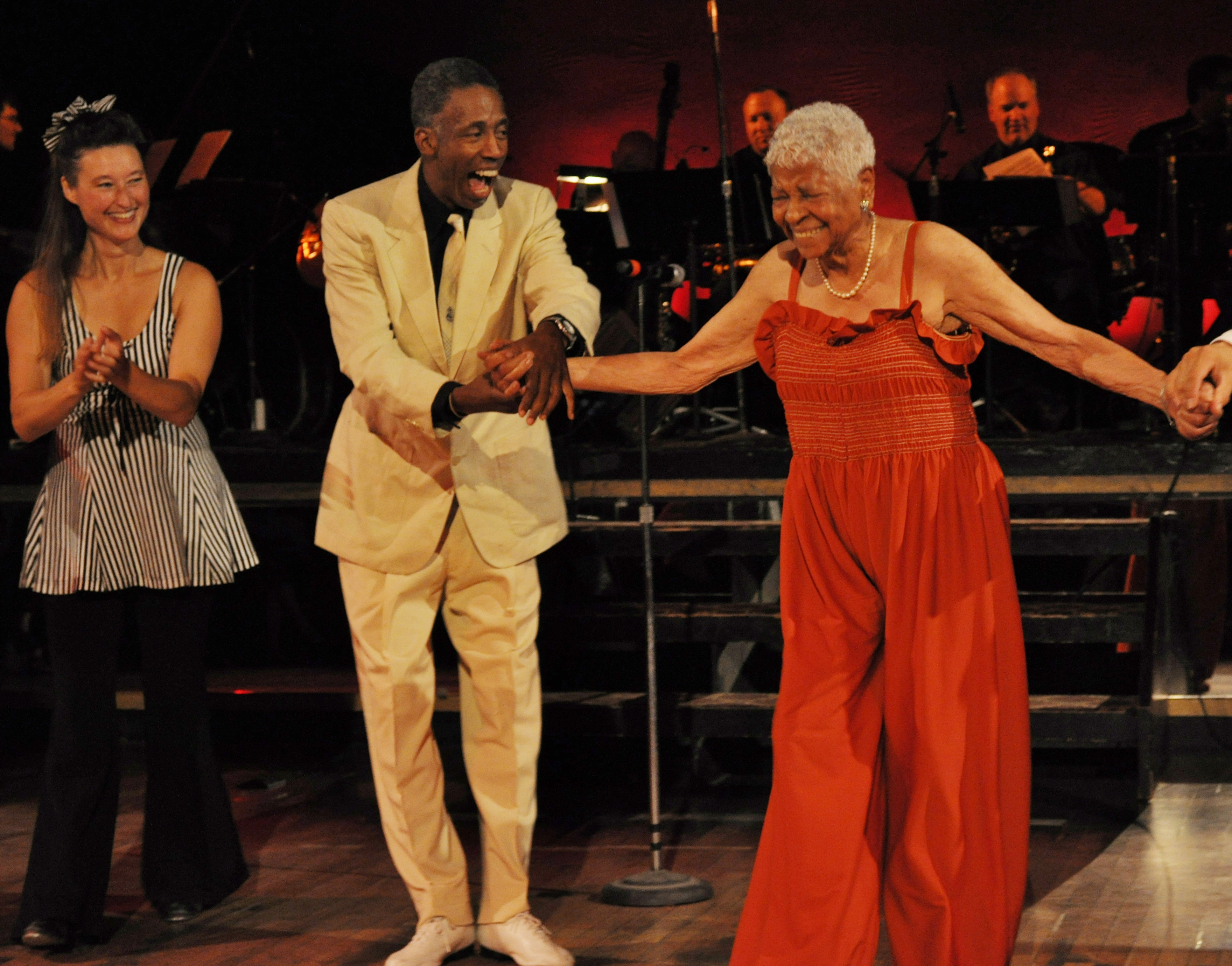 Dancer (and musician) Chester Whitmore and dancer Jeni LeGon appearing at Masters of Lindy Hop and Tap, Century Ballroom, Oddfellows Temple, Pine Street, Capitol Hill, Seattle, Washington, USA. At left, Catrine Ljunggren looks on.